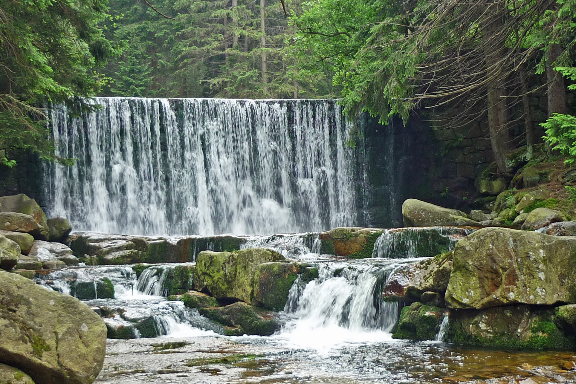 Waterfall "Dziki Wodospad" on Łomnica River, near Karpacz, Poland